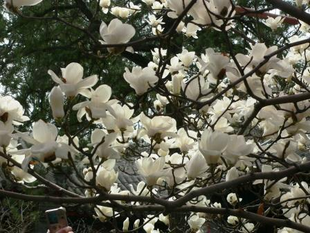 Colour, position of flowers, form of young and mature flowers, form of the tepals and the lack of leaves all suggest this is a Magnolia denudata but there is a very slight chance of it being in fact a white Magnolia × soulangeana